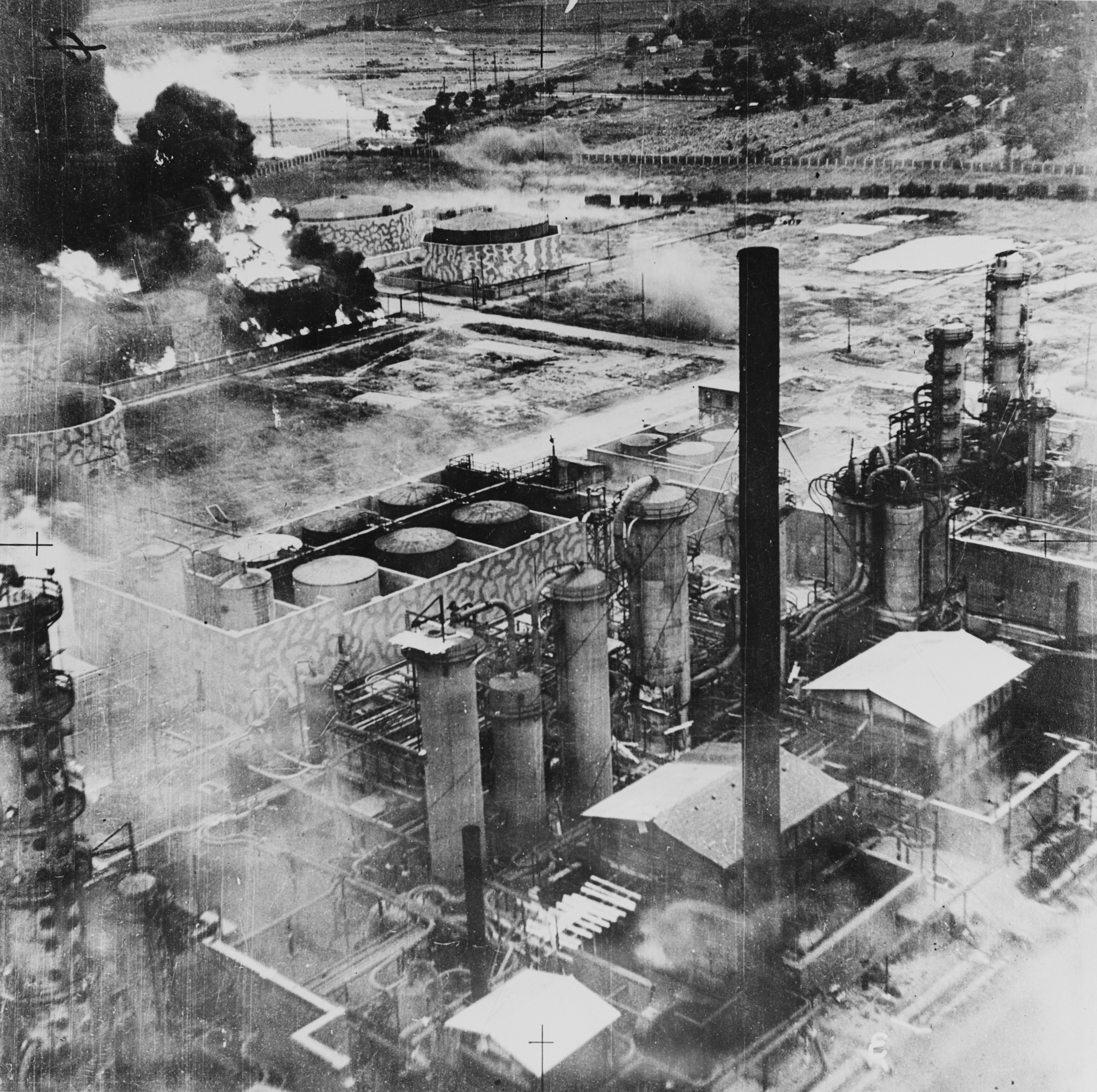 Ploesti, Romania. August 1, 1943. Oil storage tanks at the Columbia Aquila refinery burning after the raid of B-24 Liberator bombers of the United States Army Air Force. Some of the structures have been camouflaged